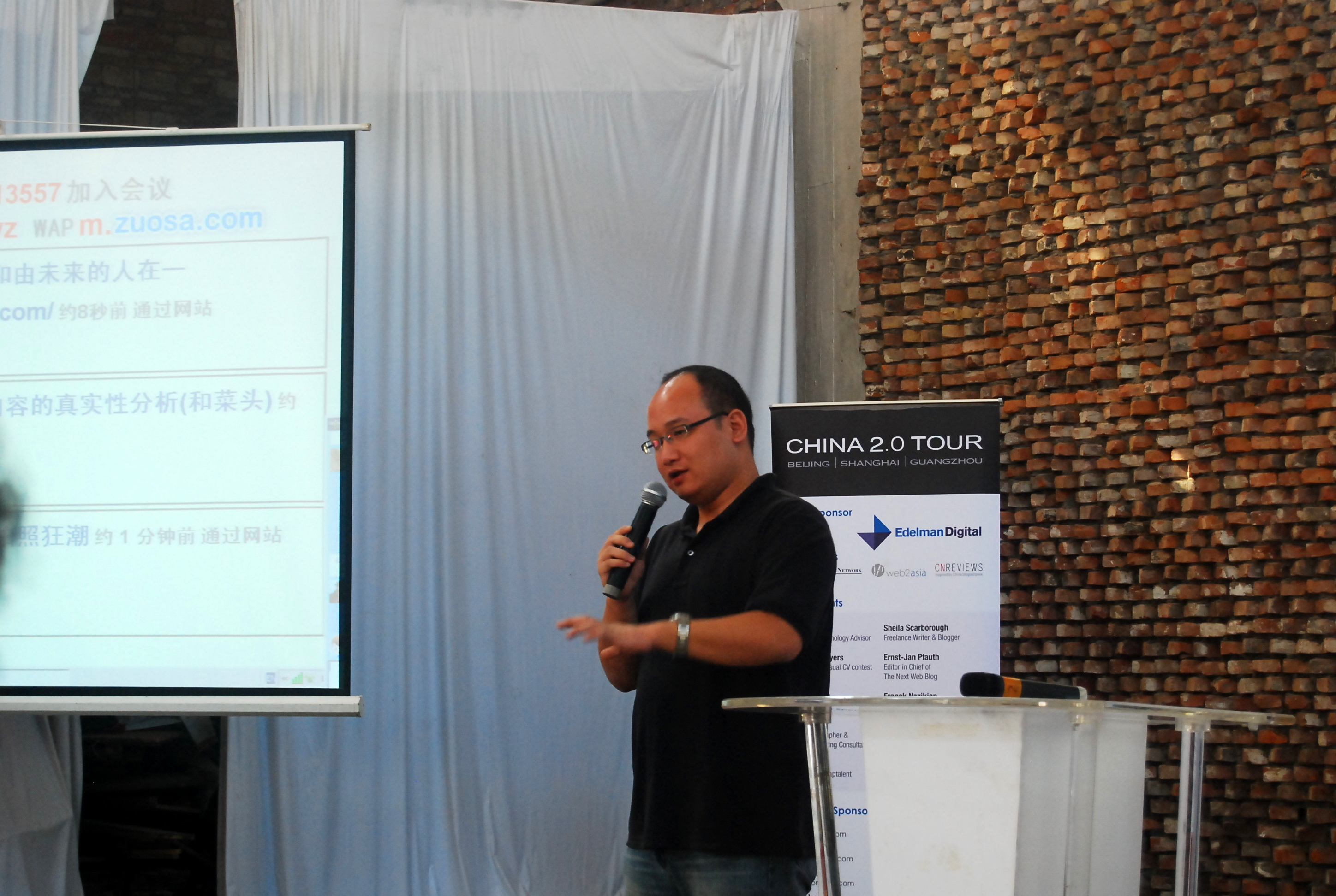 Unknown